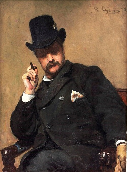 Portret van David Oyens